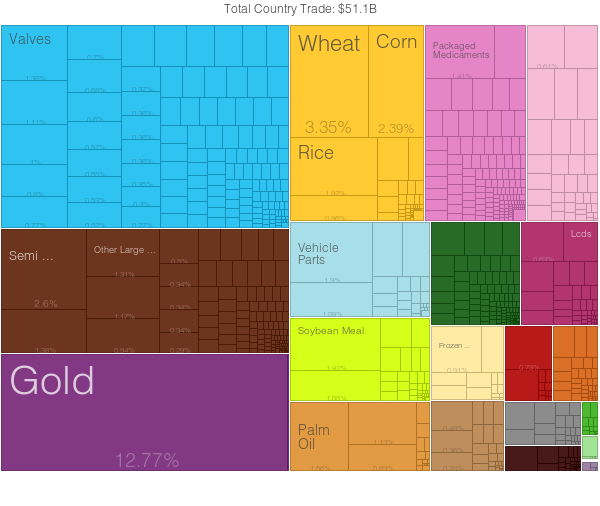 Iran Import Treemap from MIT Harvard Economic Complexity Observatory